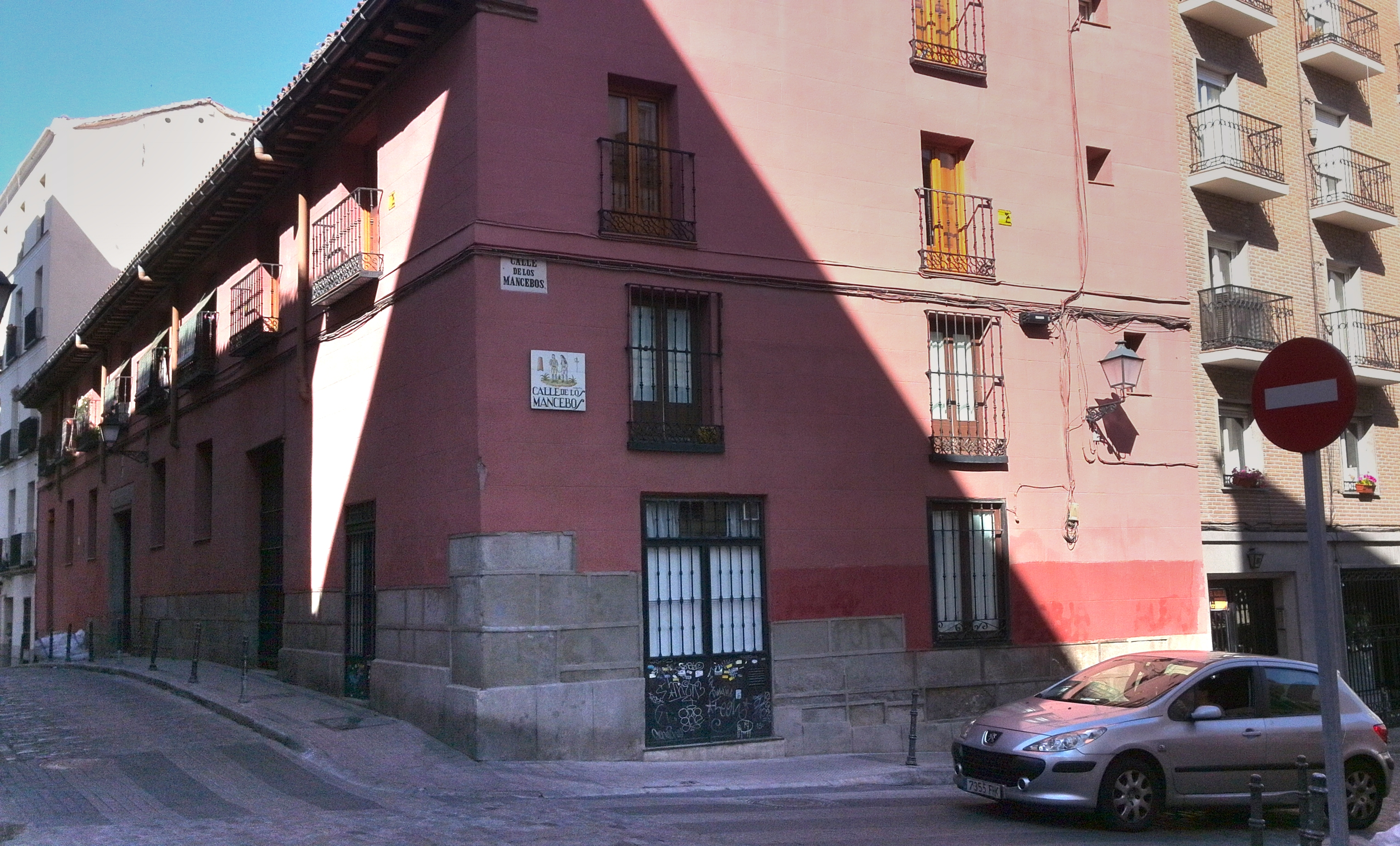 Casa a la malicia located at calle Redondilla/calle Mancebos